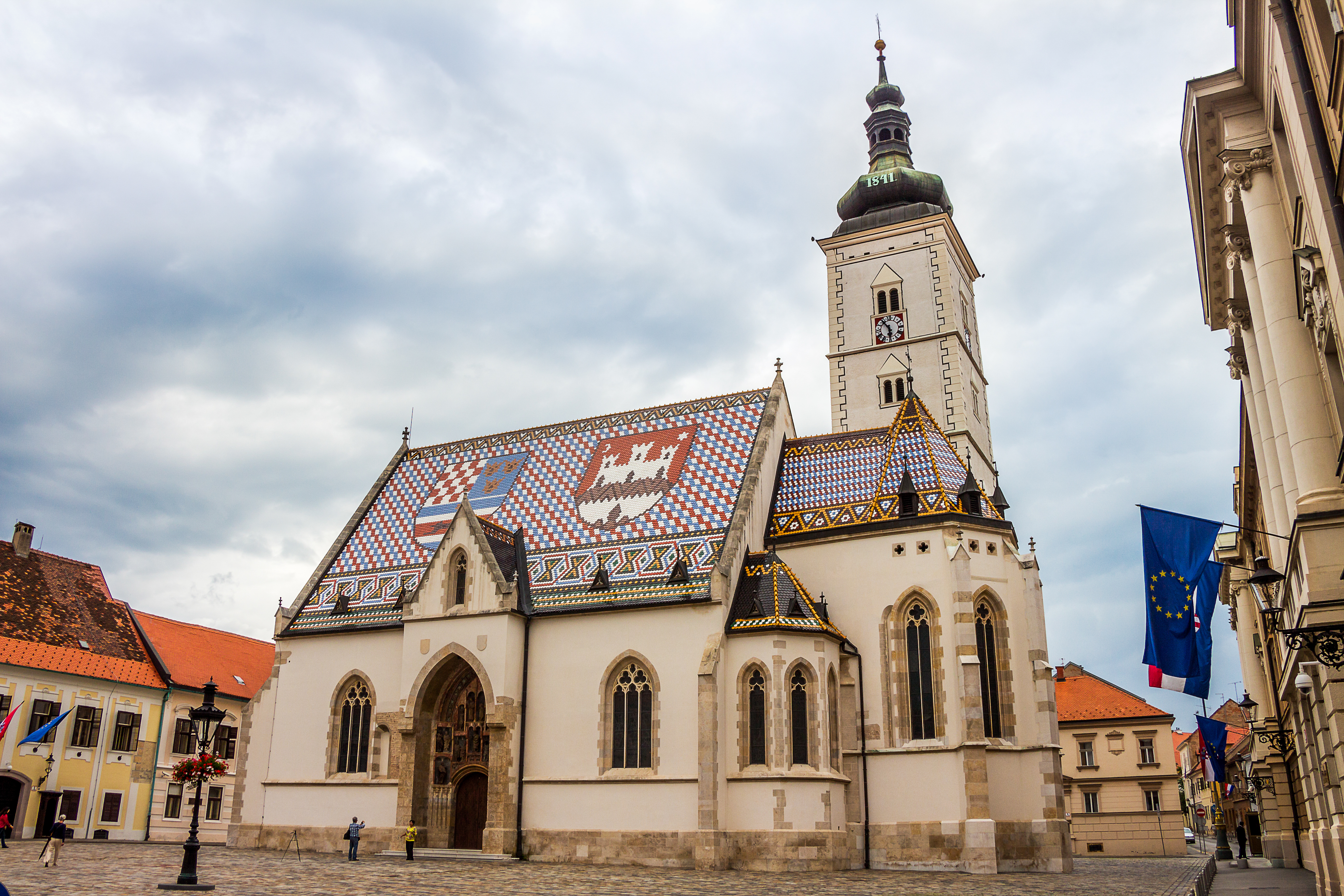 St. Mark's Church